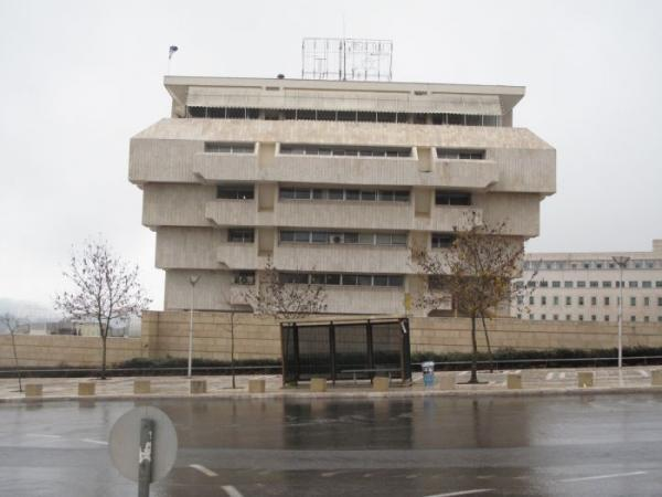 Jerusalem, Bank of Israel building